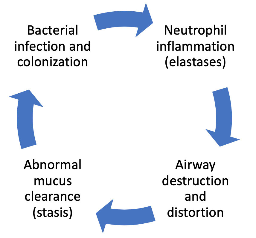 Cycle smart art showing the "vicious cycle" pathogenesis theory of bronchiectasis